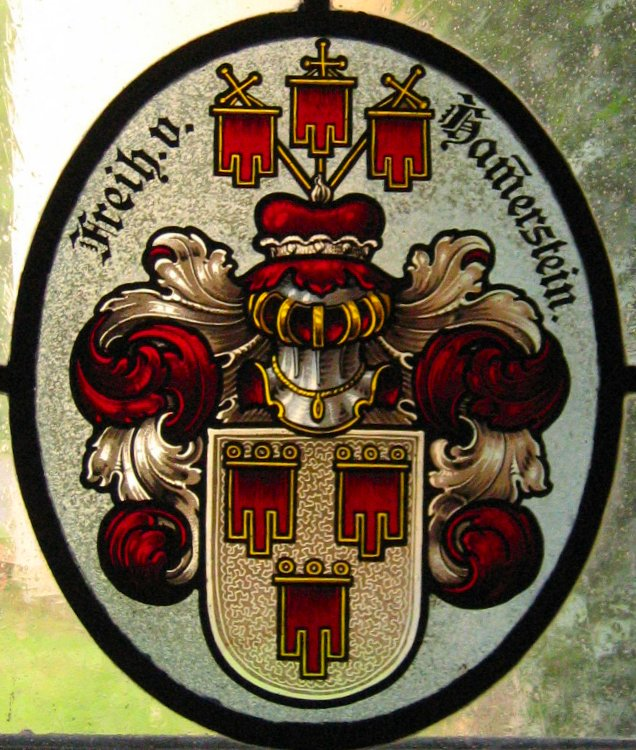 Hollwinkel Castle in Preußisch Oldendorf, District of Minden-Lübbecke, North Rhine-Westphalia, Germany.